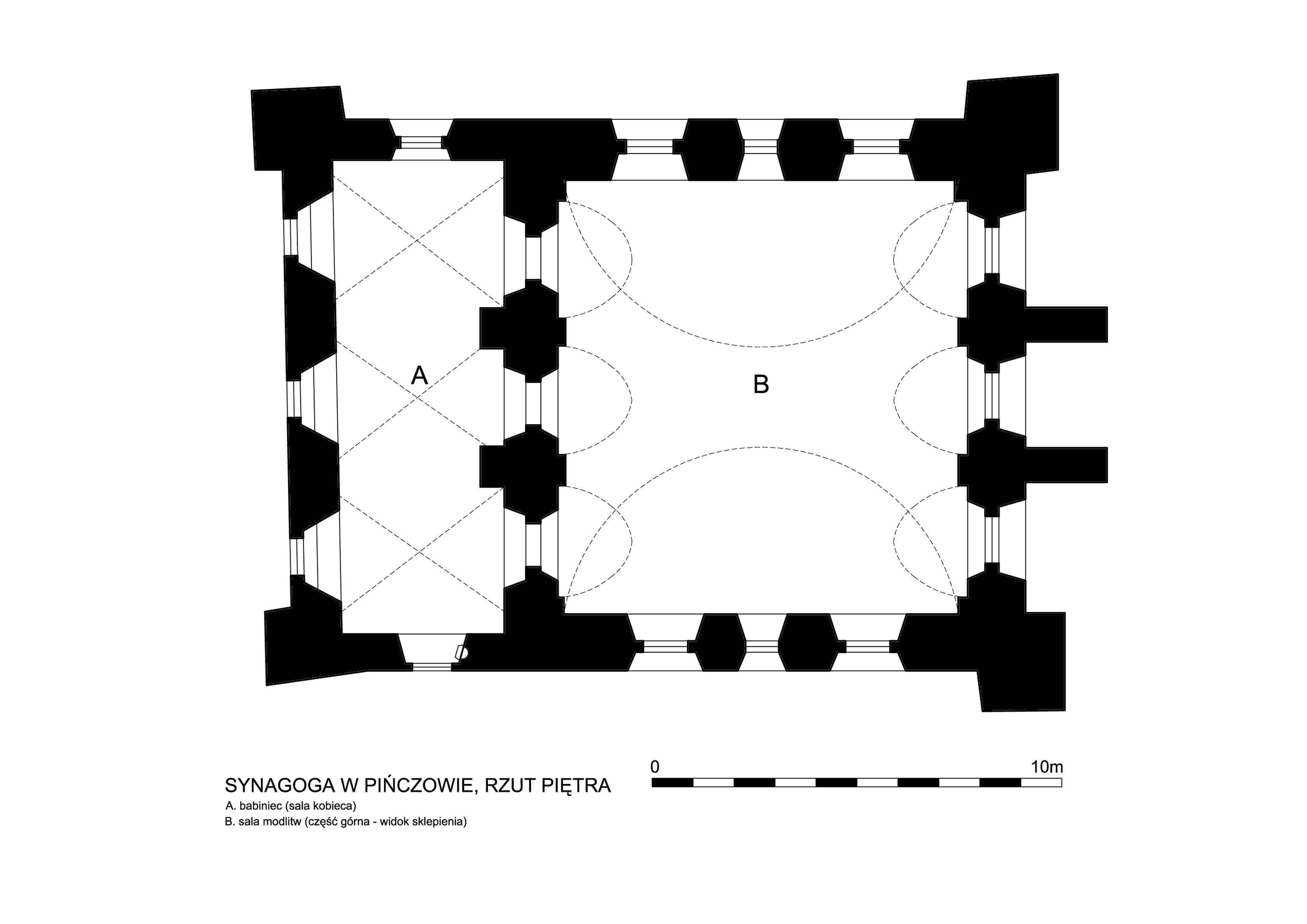 Synagogue in Pińczów - first floor plan